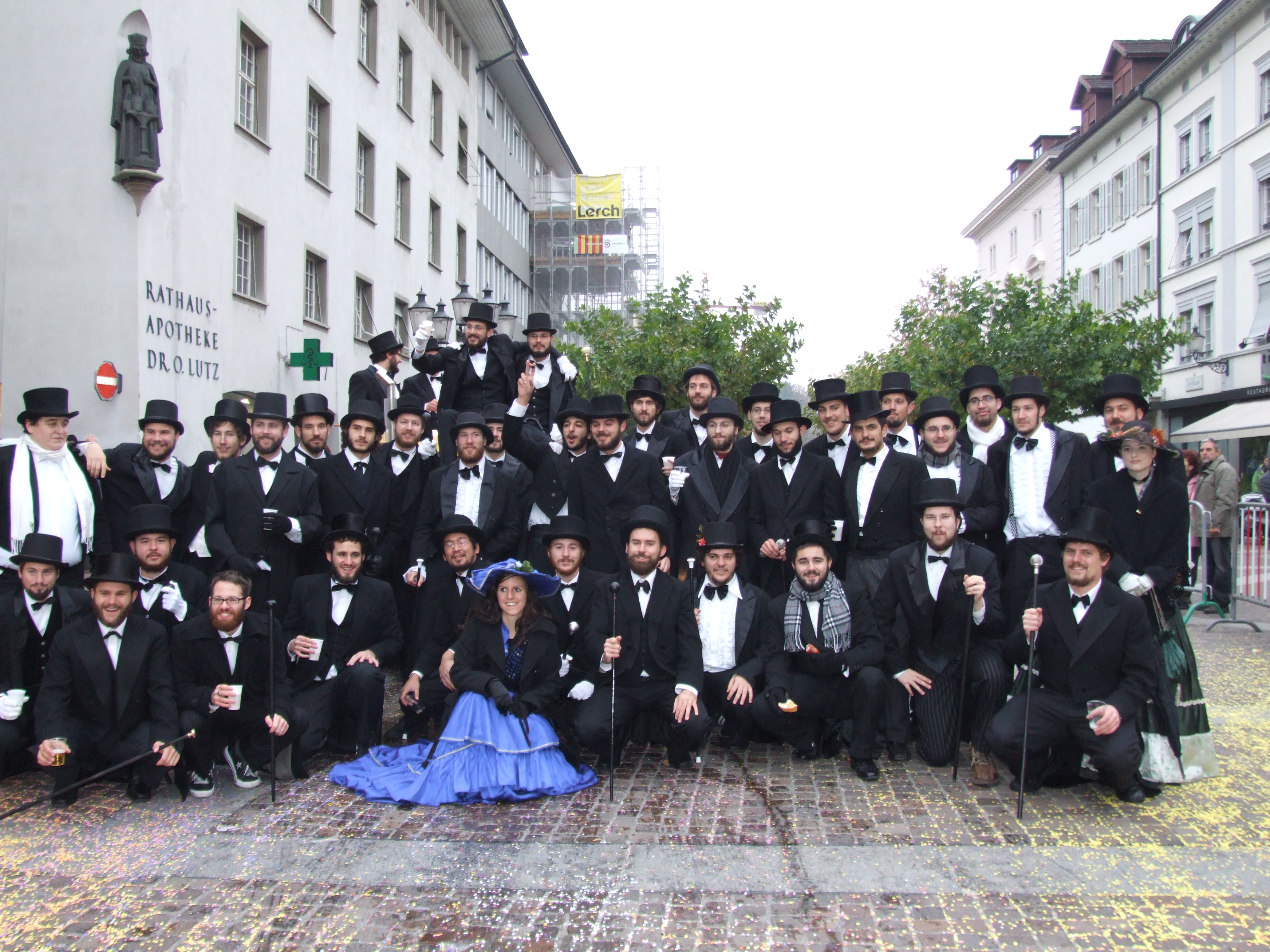 Graduates of degree course Kommunikation und Informatik at Frackwoche 08